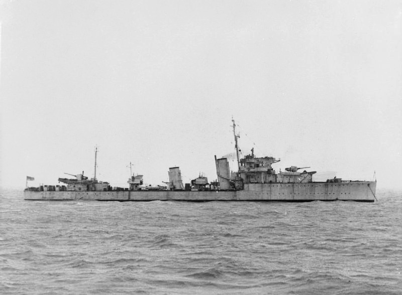 Photograph of British E class destroyer HMS Escapade.